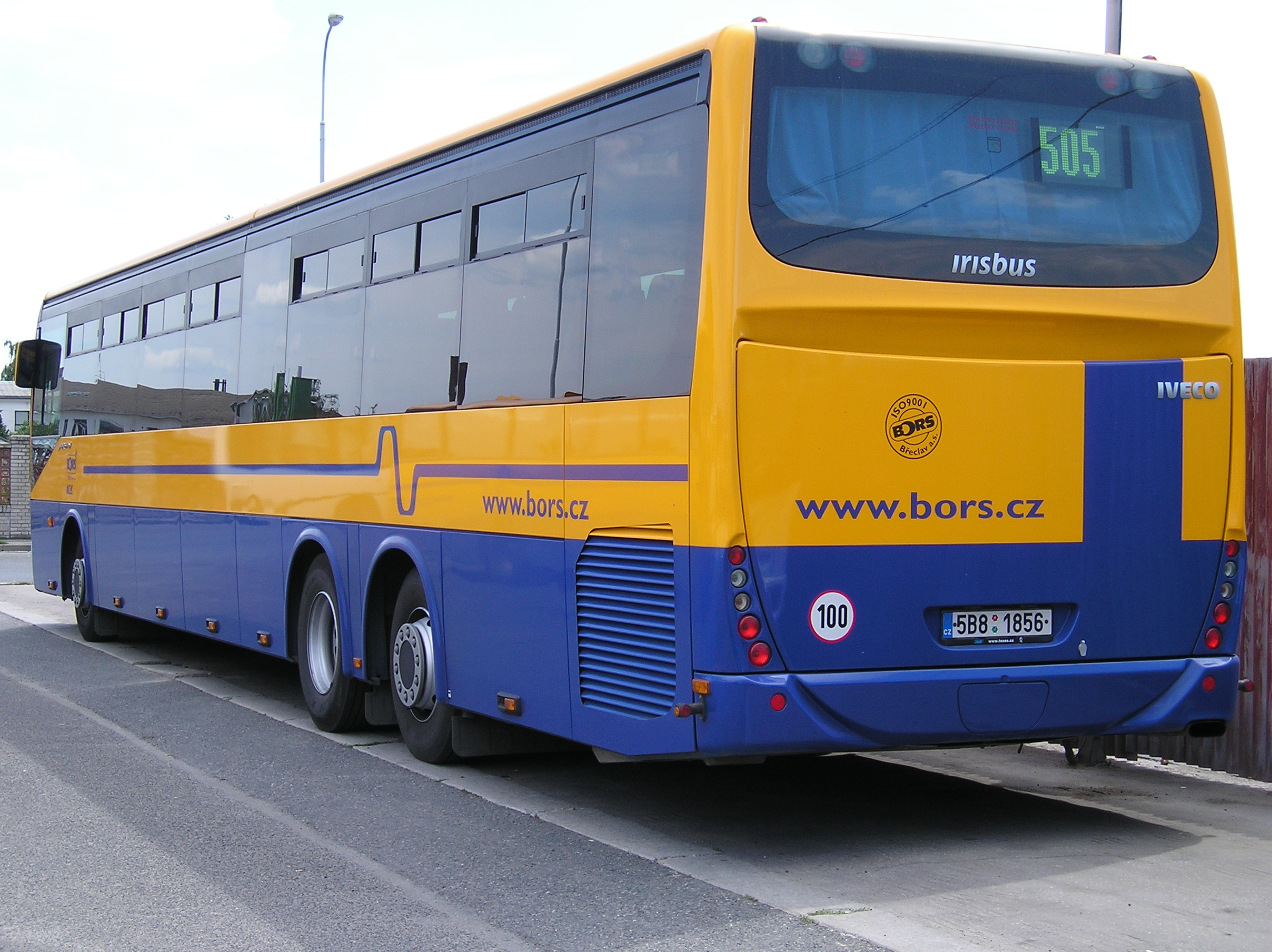 Irisbus Arway 15 m